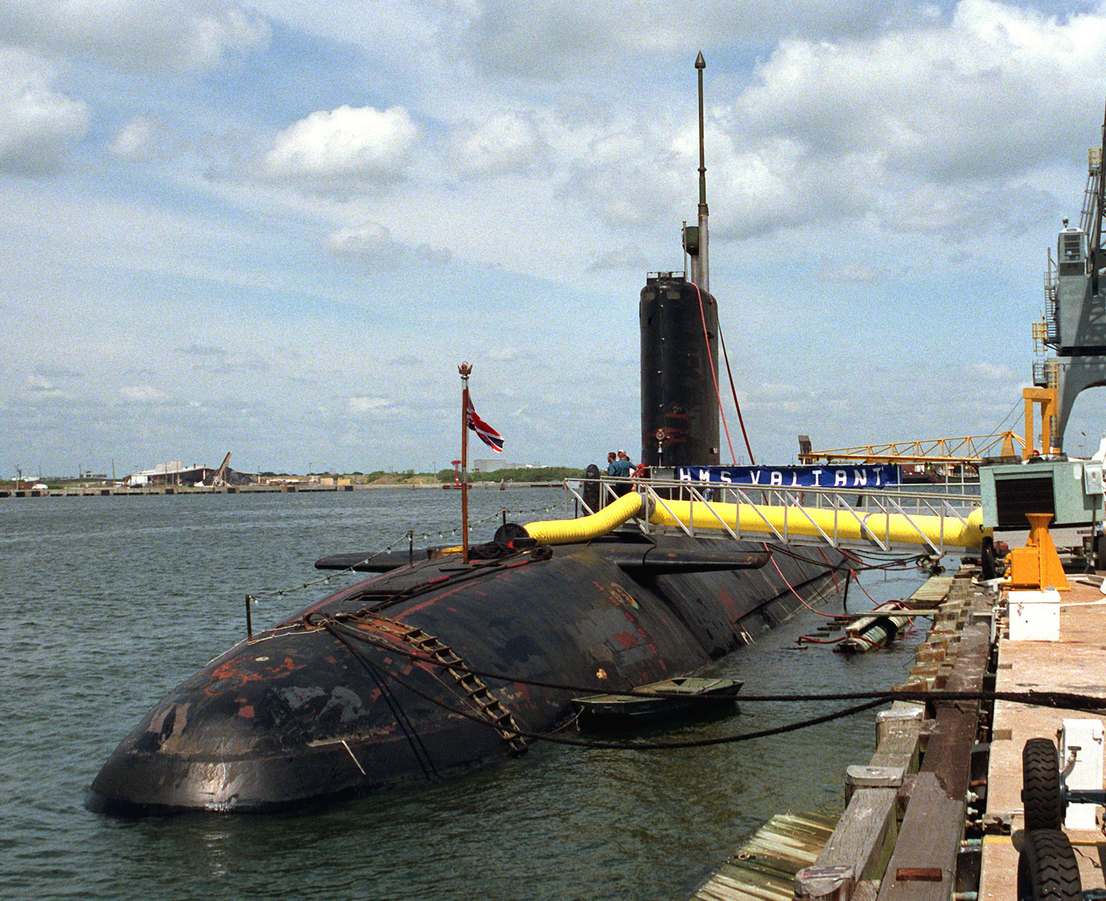 ID: DNSC9401951 A port bow view of the British nuclear-powered attack submarine HMS Valiant (S102) tied up at the navy pier. Location: PORT CANAVERAL, FLORIDA (FL) UNITED STATES OF AMERICA (USA)